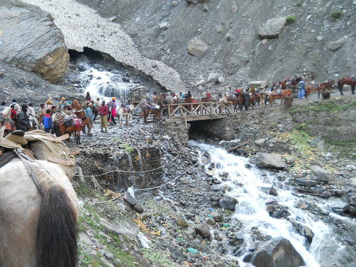 this picture depicts the devotees crossing a narrow bridge on their way to the holy shrine of amarnath